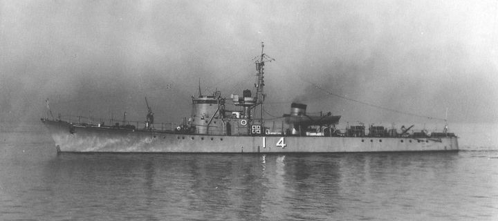 Japanese Submarine Chaser No.14(No.13-class) at Tamano.